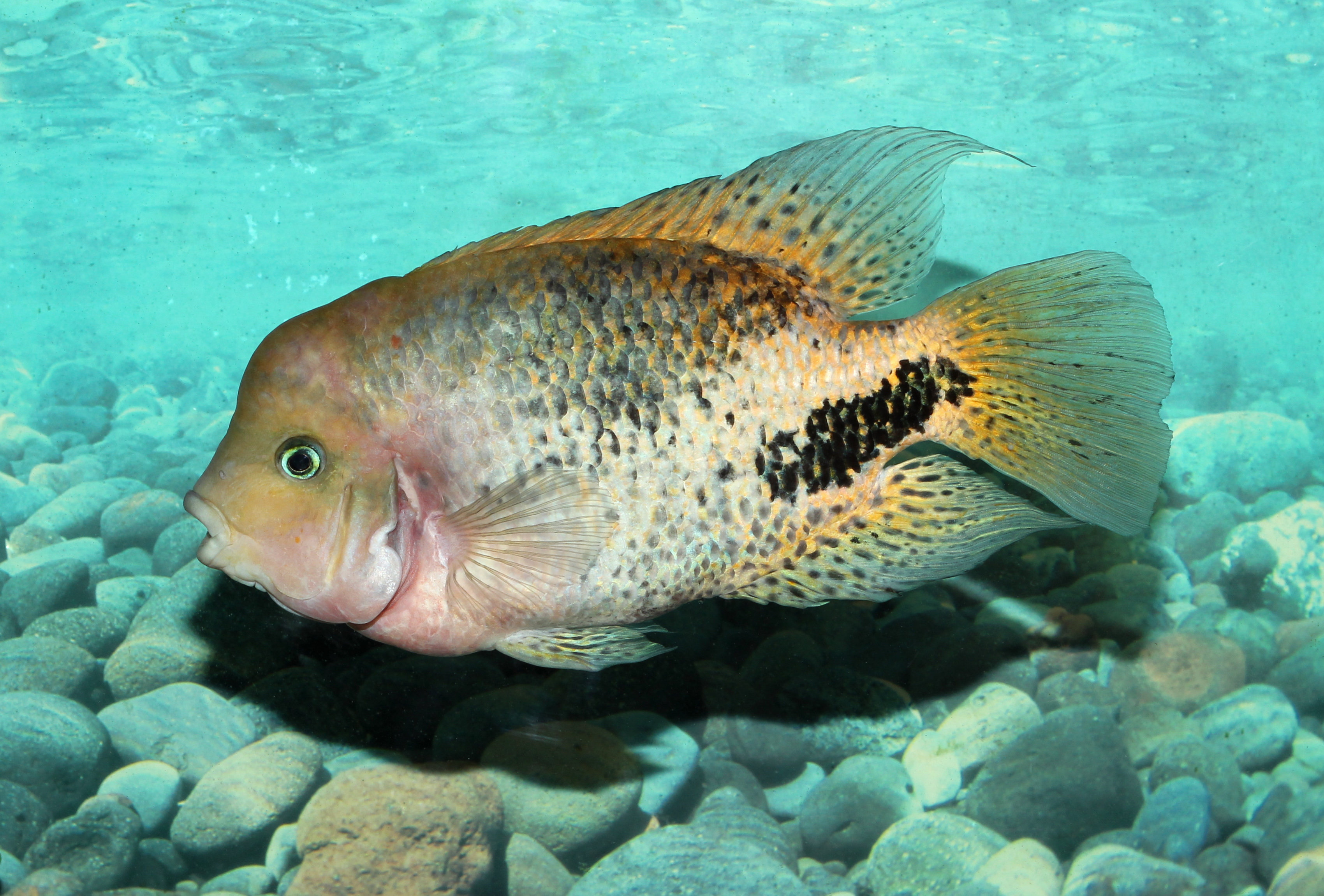 Quetzel cichlid, redhead cichlid, firehead cichlid (Paraneetroplus synspilus)